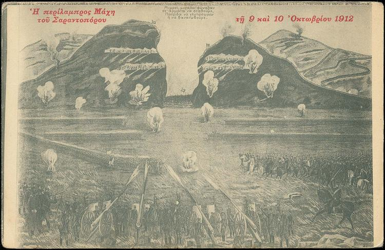 Greek propaganda poscard with the Battle of Sarandaporo